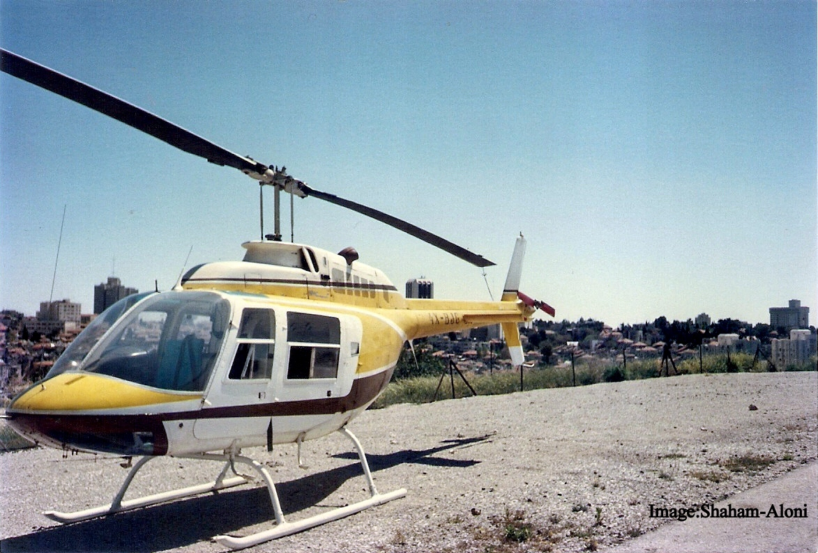 Bell 206B Jet Ranger at the Knesset heliport.